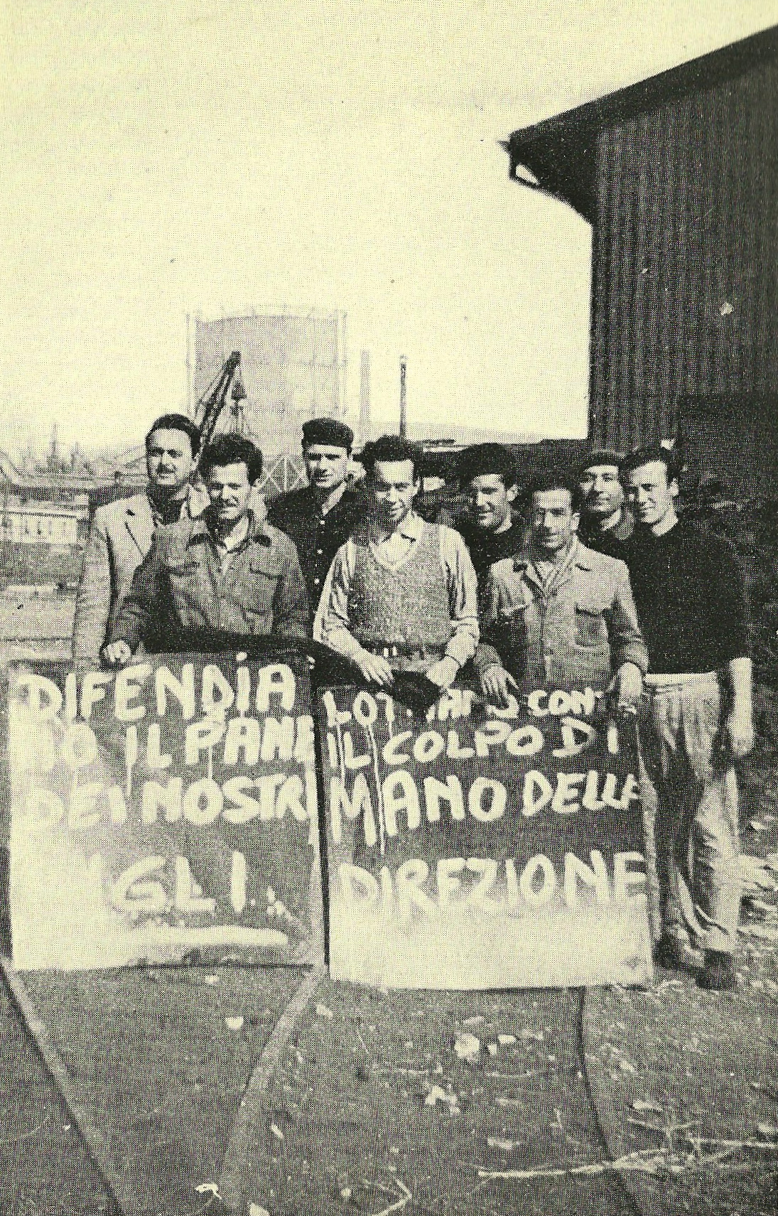 Workers of the steel mill "La Magona" in Piombino (province of Livorno, Tuscany). This was one the first factory occupations in the history of Italian steel industry to prevent mill's lock out.